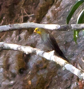 The endangered species Yellow-rumped Honeyguide had been photographed during the birding trip of GoingWild in Khangchendzonga National Park in West Sikkim, Sikkim, India on 17.02.2016. Previously published: Yes, I have published this image file in my Facebook profile; I am yet to publish it in other ornithology portals and websites and in print media as well for future use.